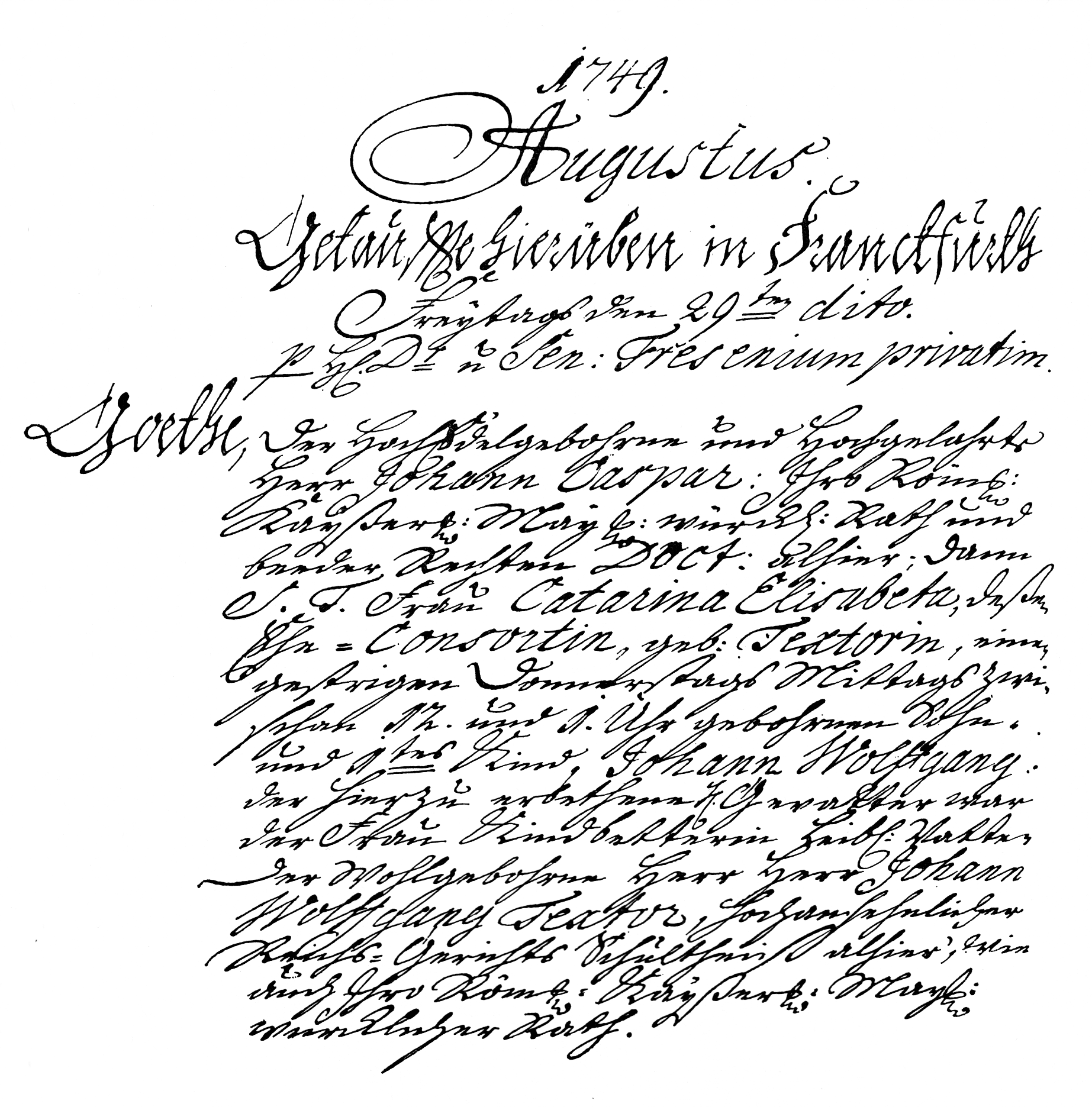 Certificate of birth and baptism of Johann Wolfgang Goethe 1749 in the Frankfurt Prostestant Parish Register